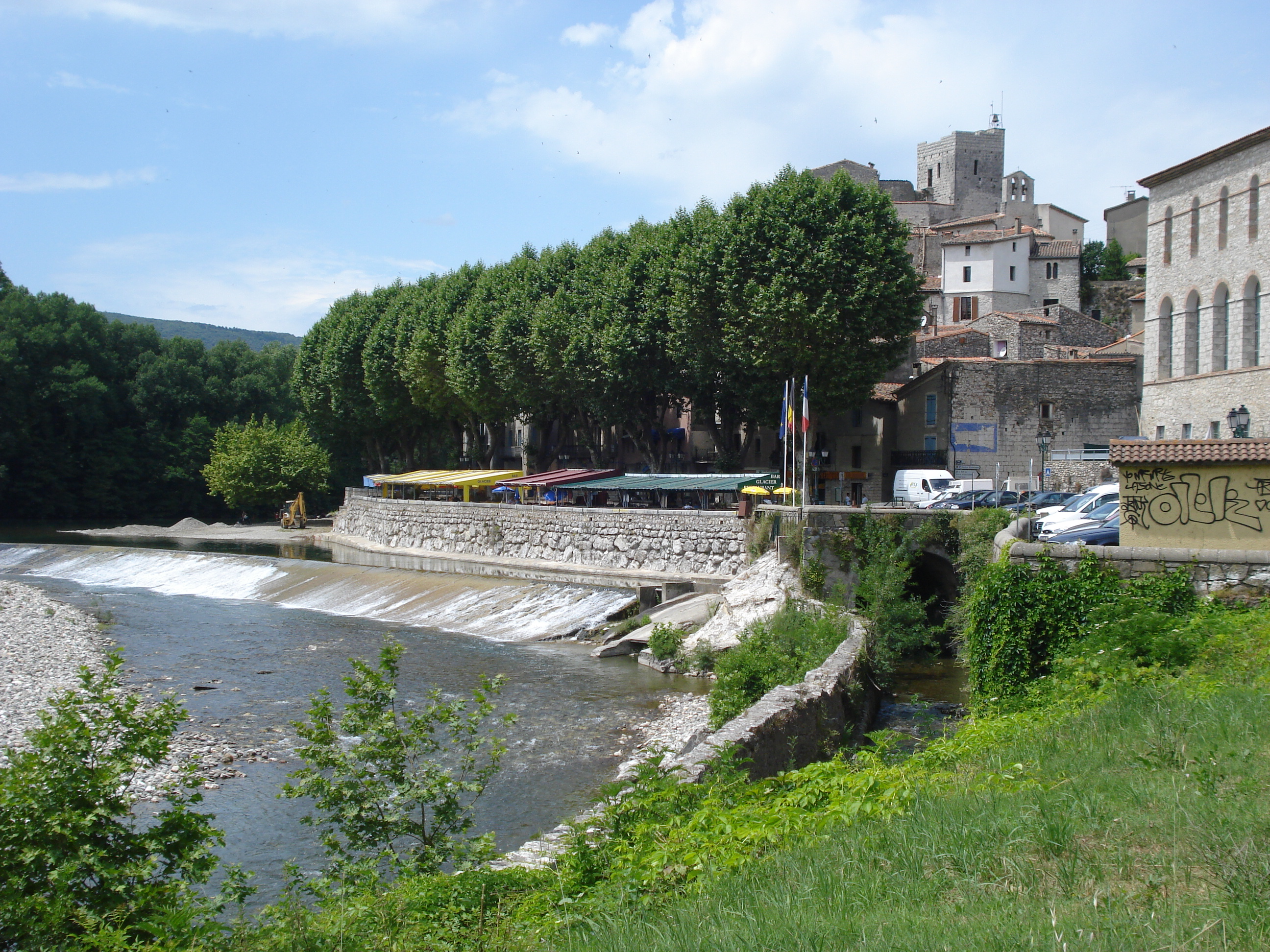 Laroque (Hérault, Fr) church, Hérault river with dam.